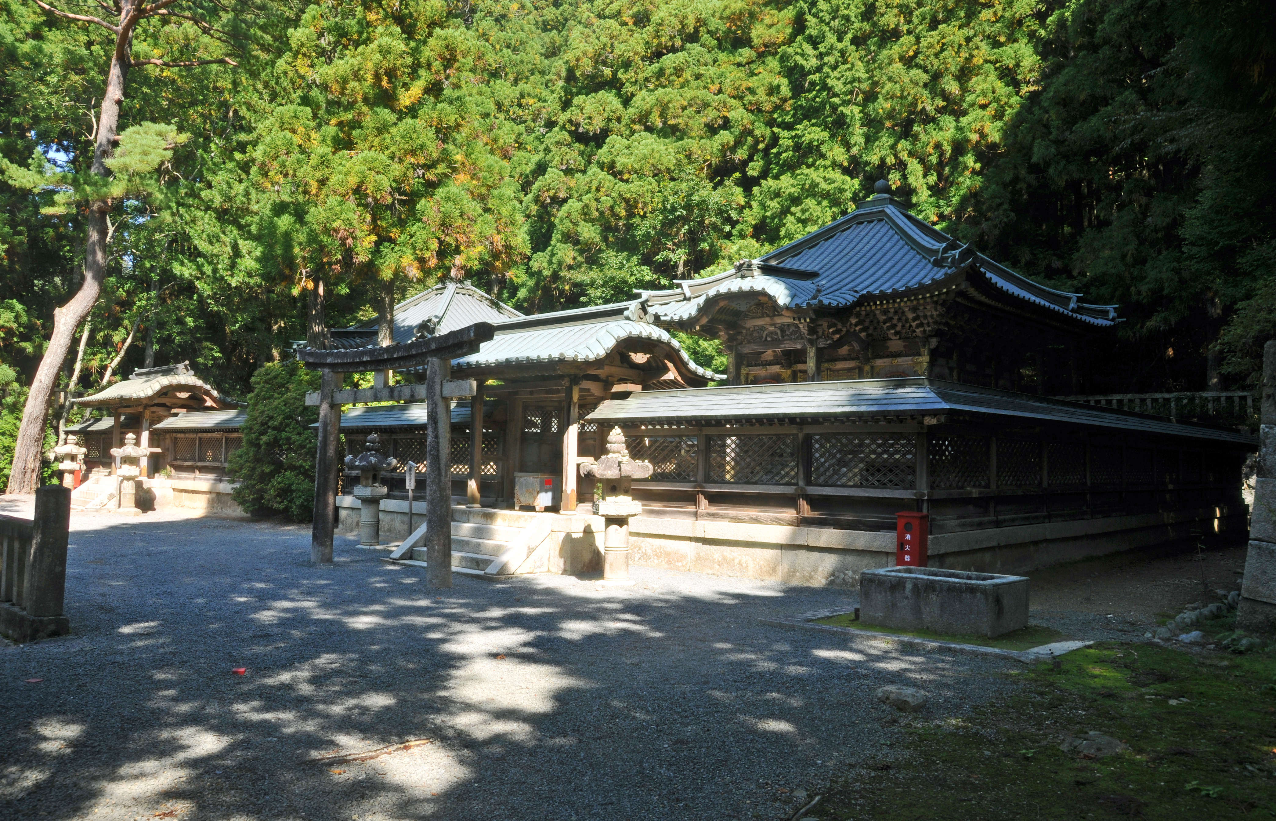 View of Tokugawake Reidai